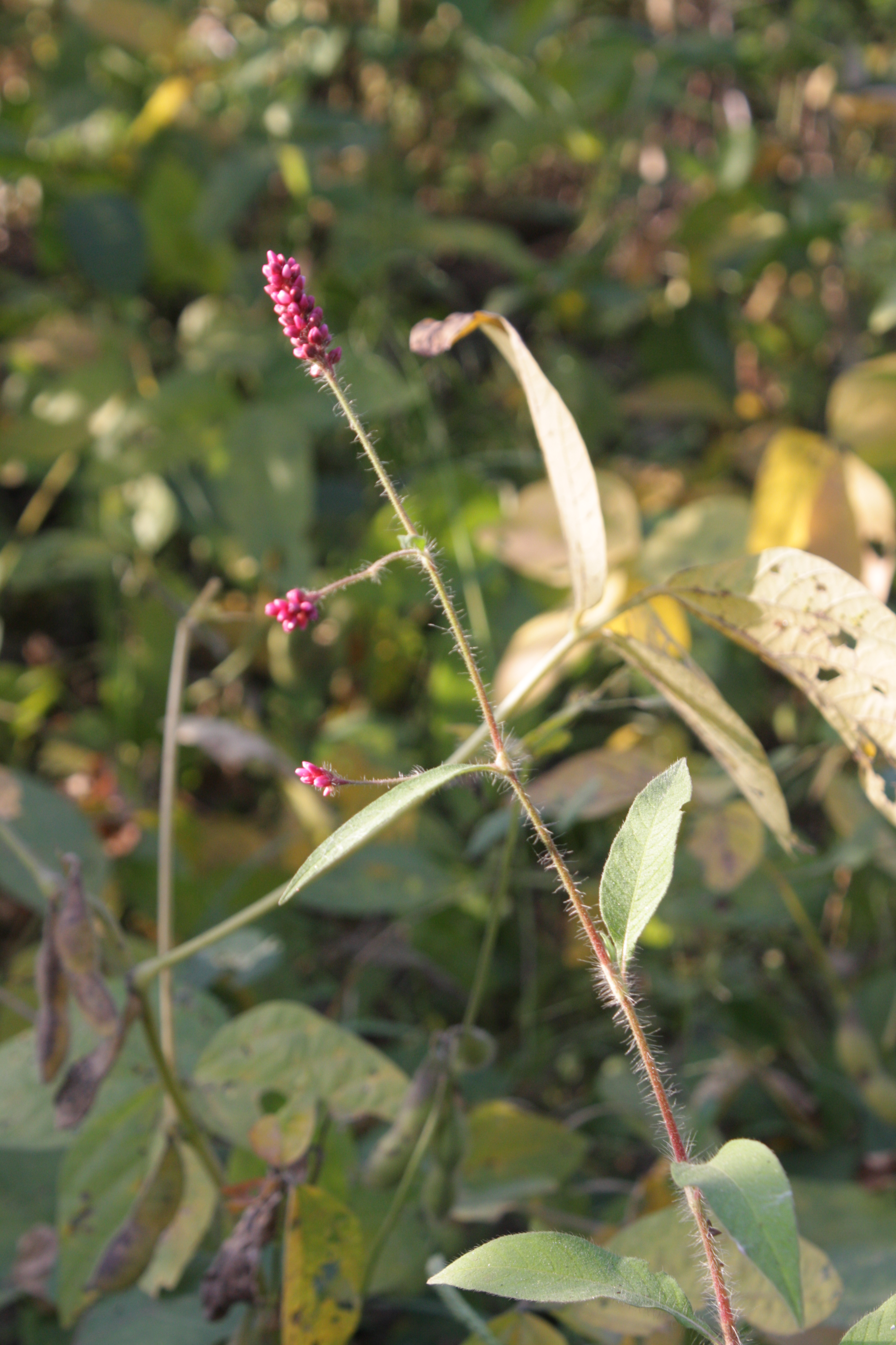 Persicaria viscosa in Goyang, Korea